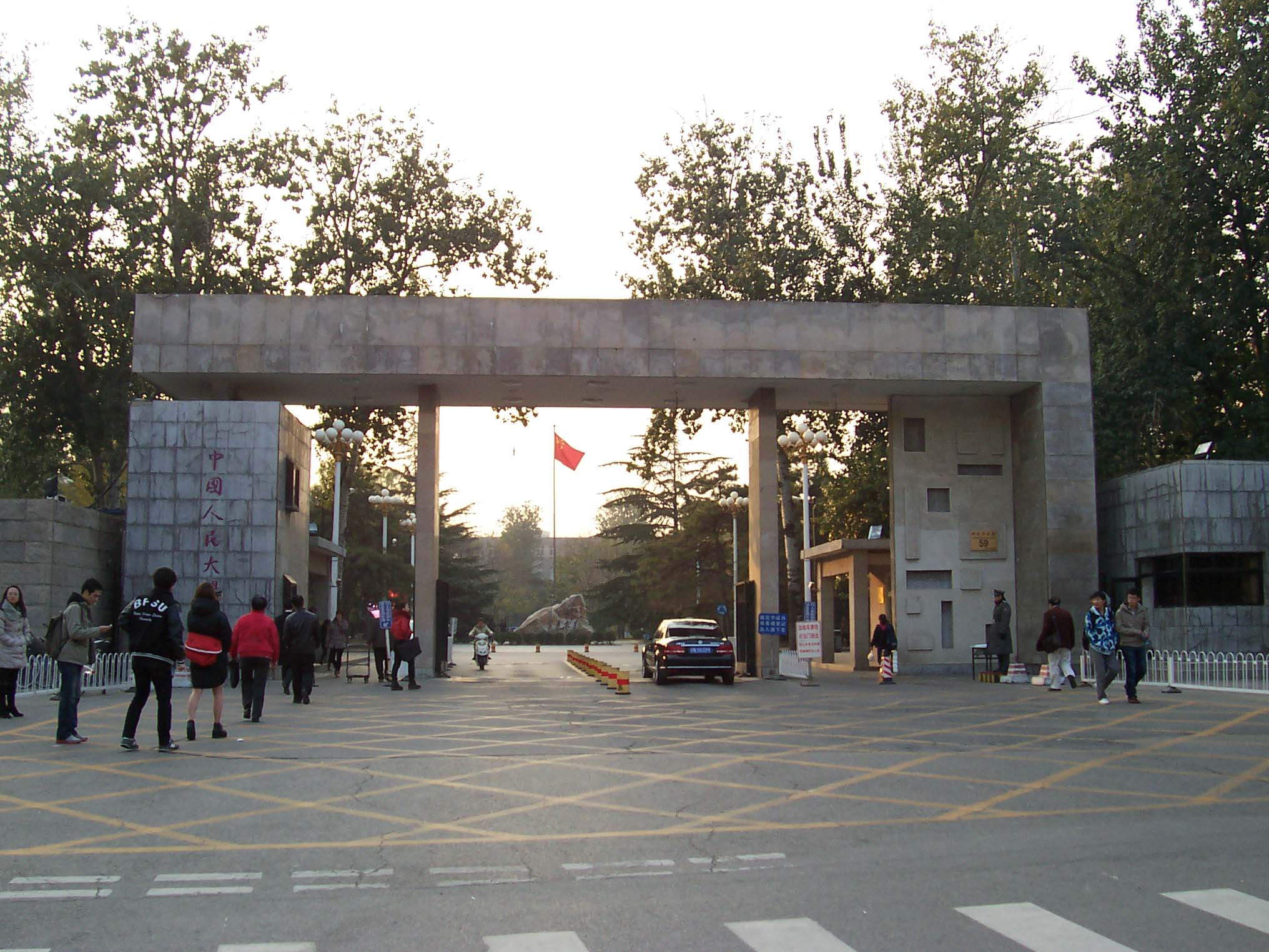 Renmin University Entrance, Beijing